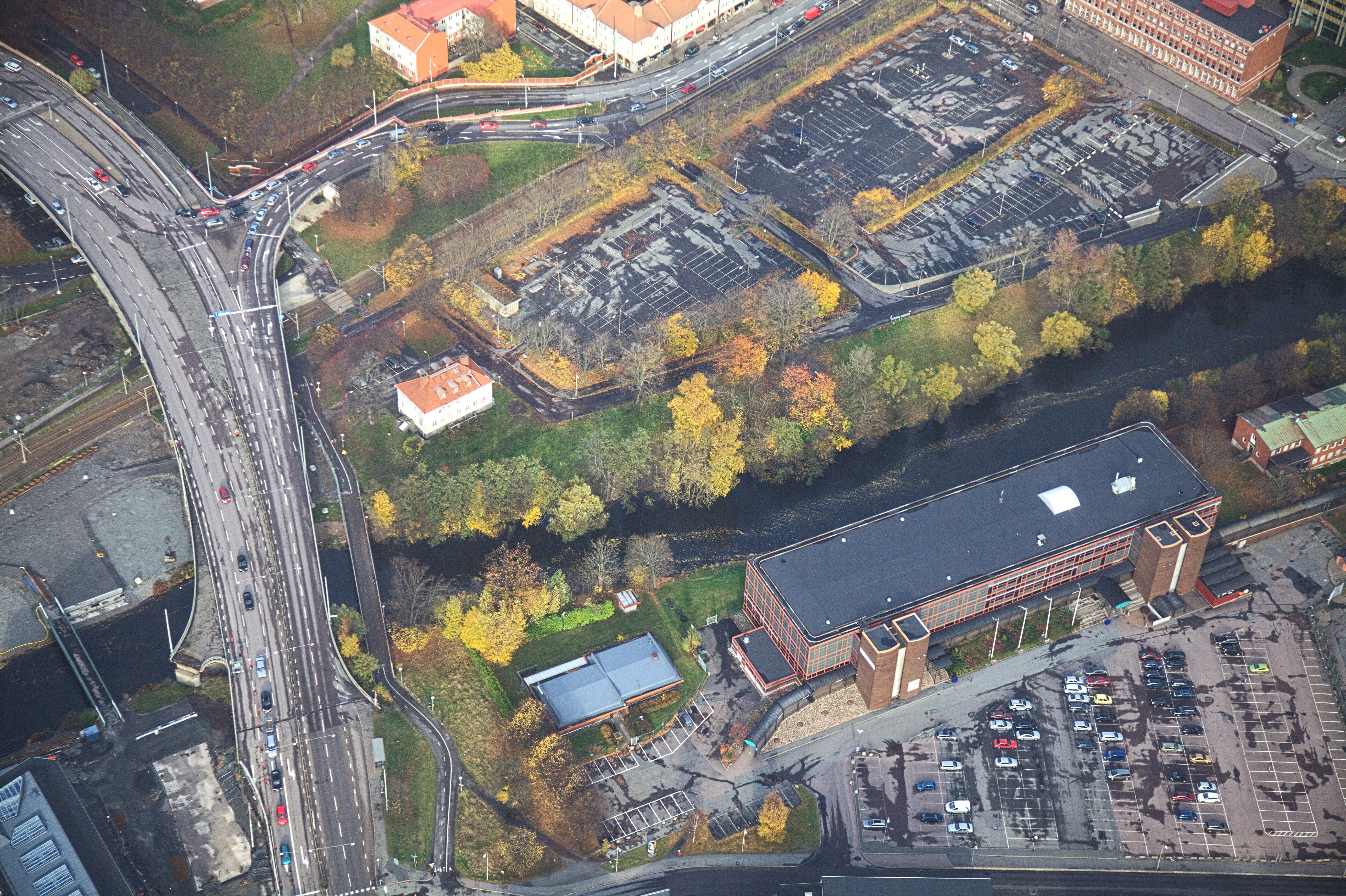 Photo taken on a helicopter over Gothenburg